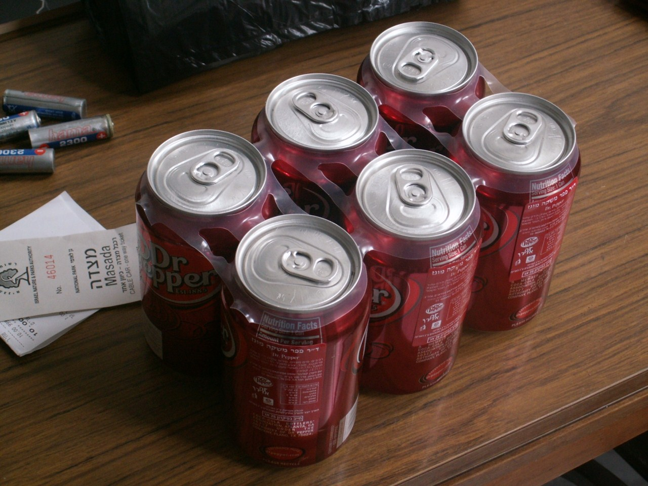 Israeli Dr. Pepper Six Pack